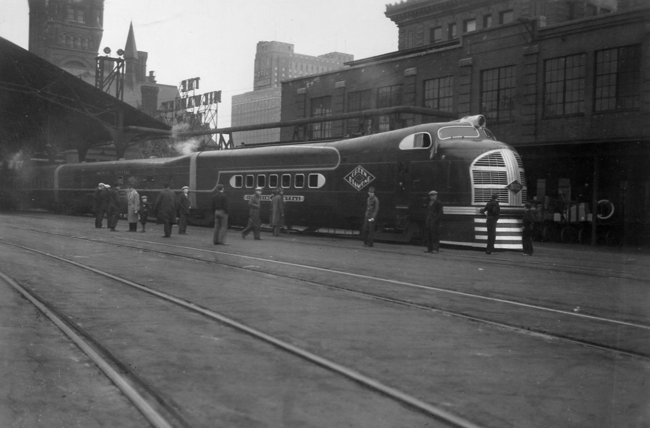 Photo of the Illinois Central streamliner "The Green Diamond" in Milwaukee on April 24, 1936. Before going into regular service, the IC took the train on a publicity tour in April and May of 1936, similar to those by the Burlington for their early Zephyrs. Milwaukee was one of the places the train visited. The train was at the Milwaukee Road station in Milwaukee--the sign for the depot can be seen in the background of this photo.